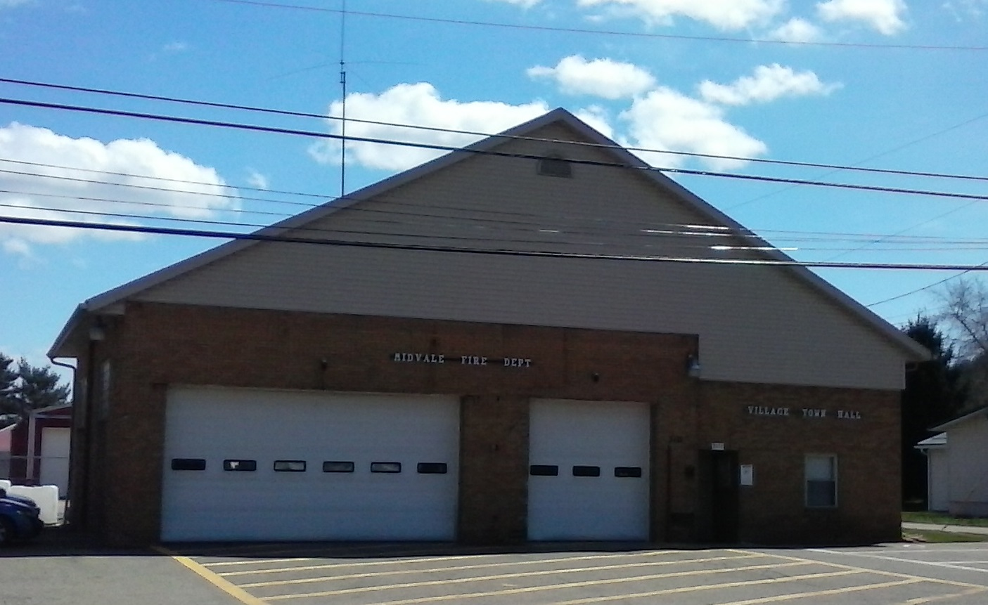 Town Hall and Fire Brigade Midvale, Ohio